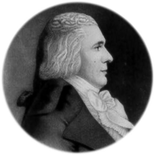 Joseph Ingraham (1762–1800), American sailor. Head and shoulders portrait, right profile.